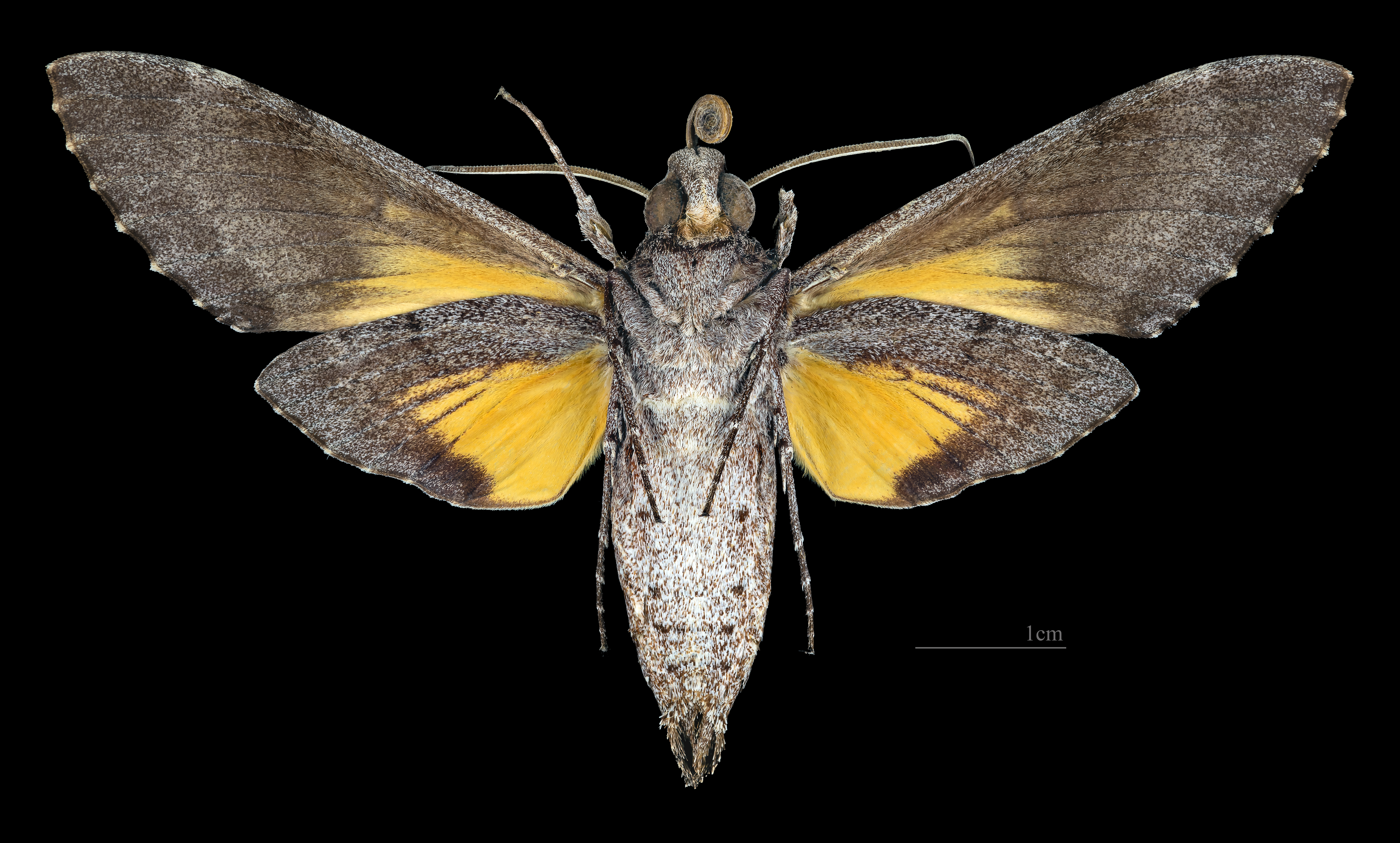 Isognathus menechus - △ Ventral side Collection of the Mathematician Laurent Schwartz